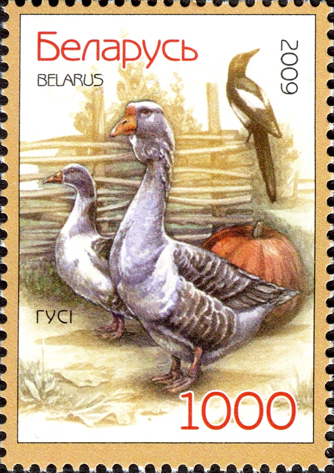 Stamp of Belarus